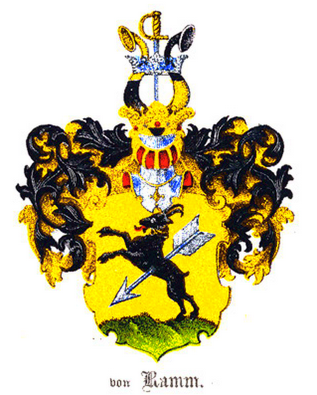 Coat of arms of Ramm family